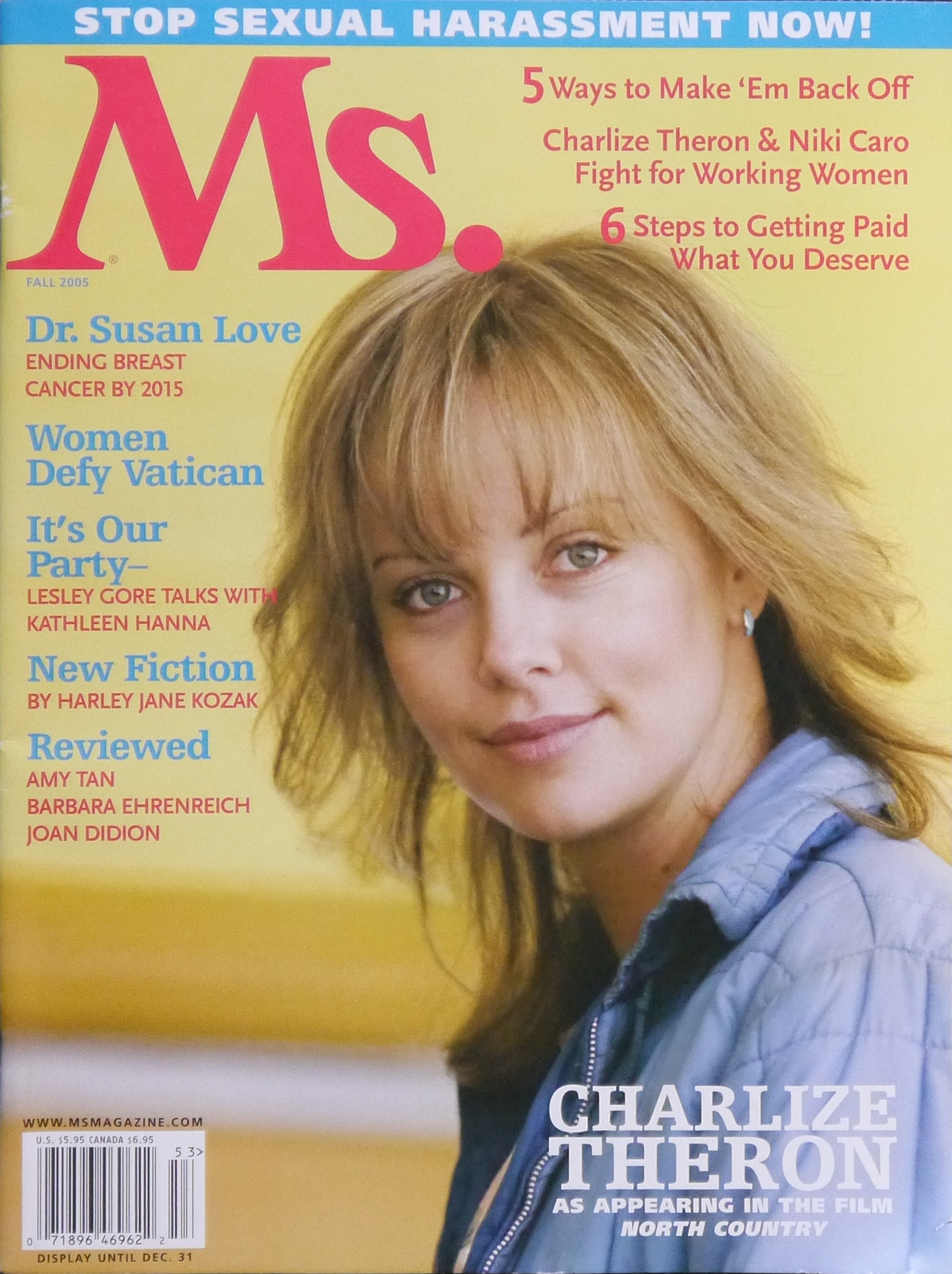 Ms. magazine, Fall 2005 with Charlize Theron